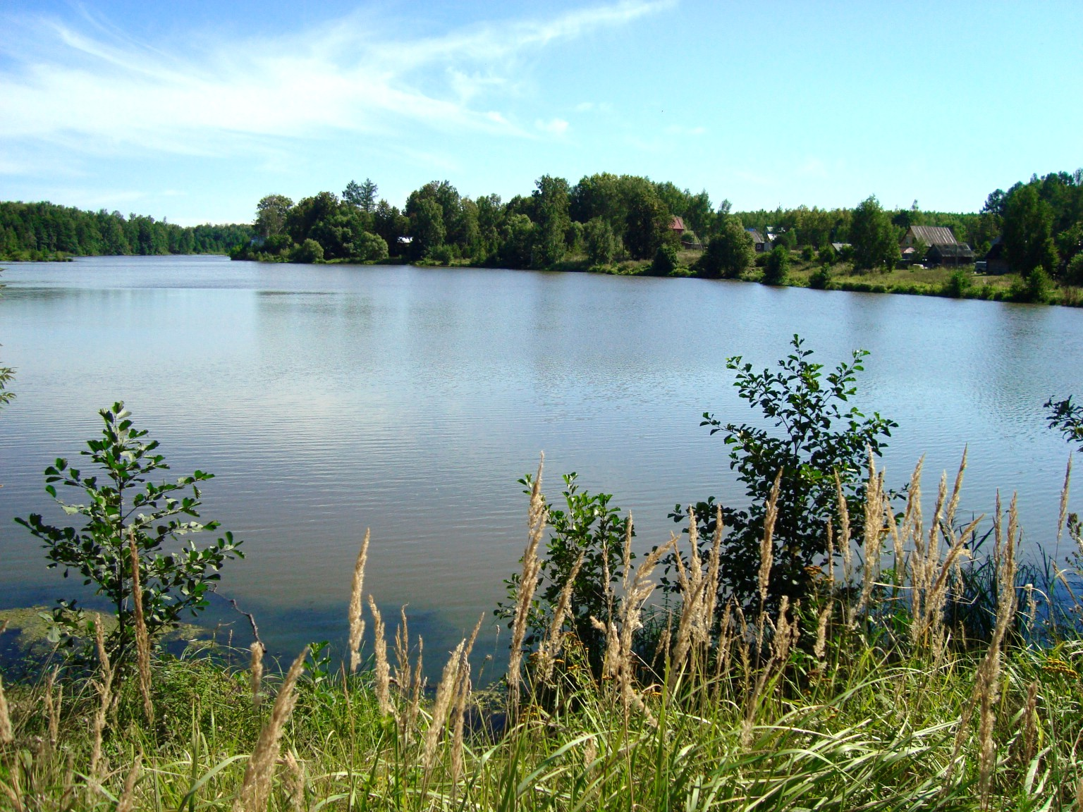 Barski pond at Kostino, Vladimir oblast, Russia.